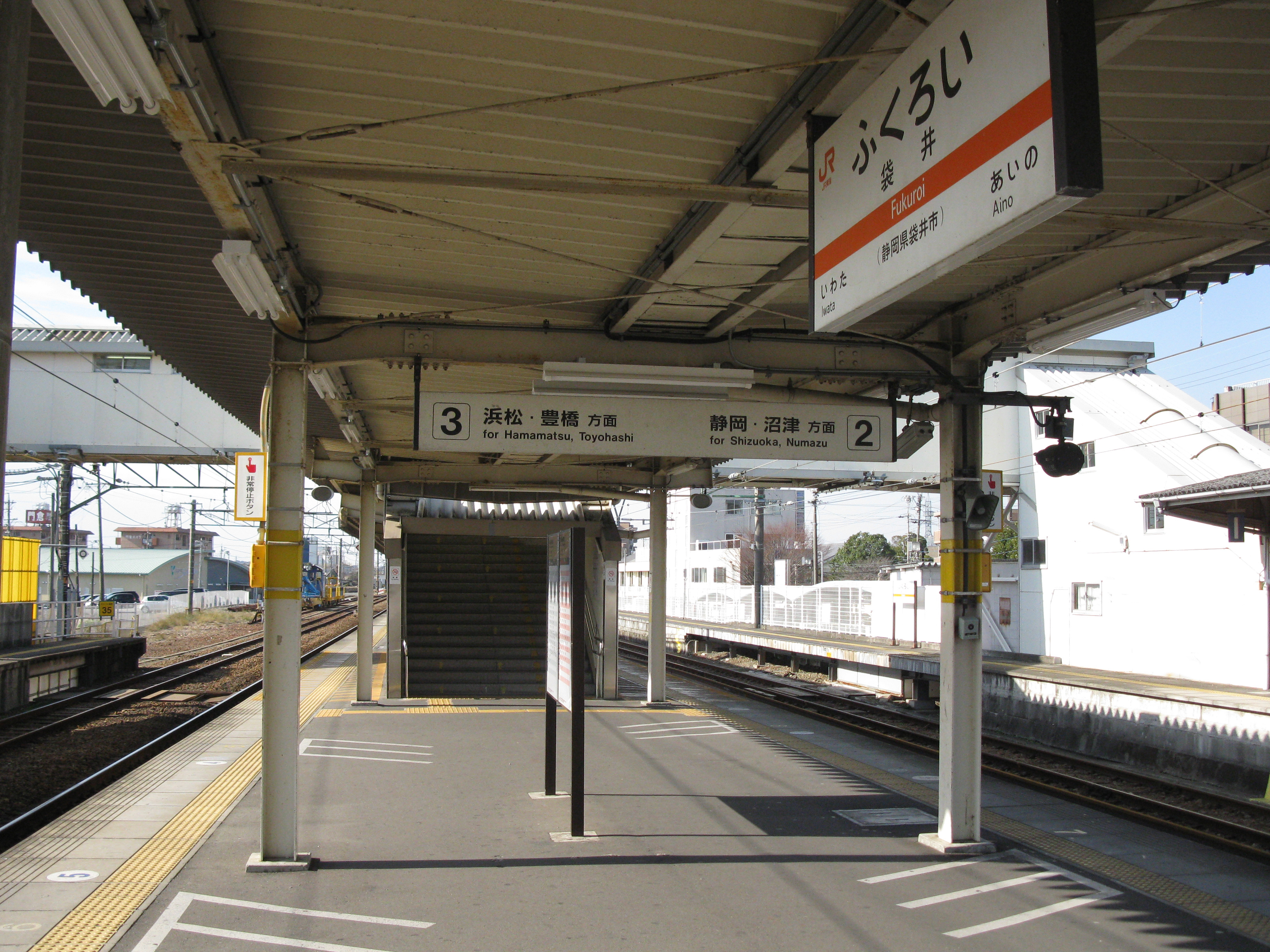 Fukuroi Station platform (Central Japan Railway(JR Central) Tōkaidō Main Line)